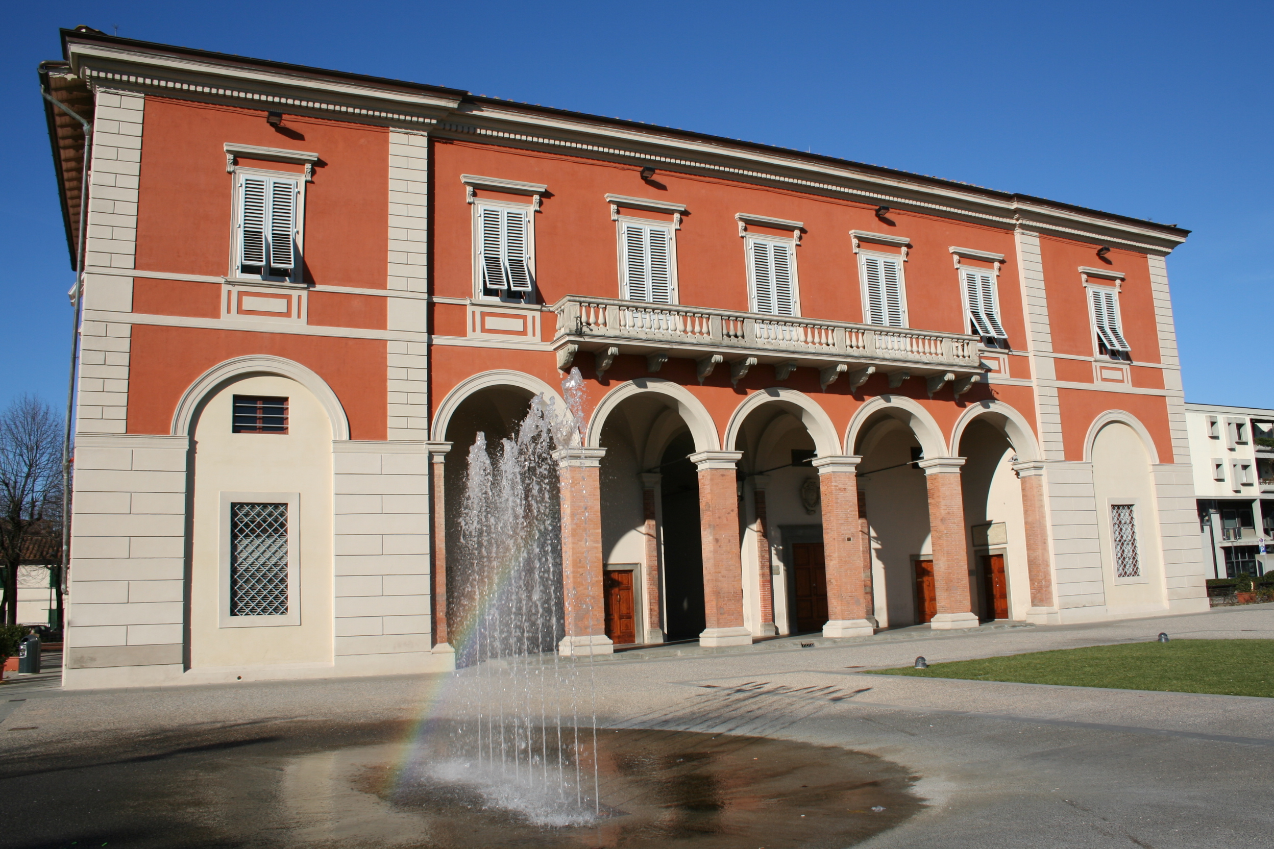 View of the old Library of Scandicci, now Urban center